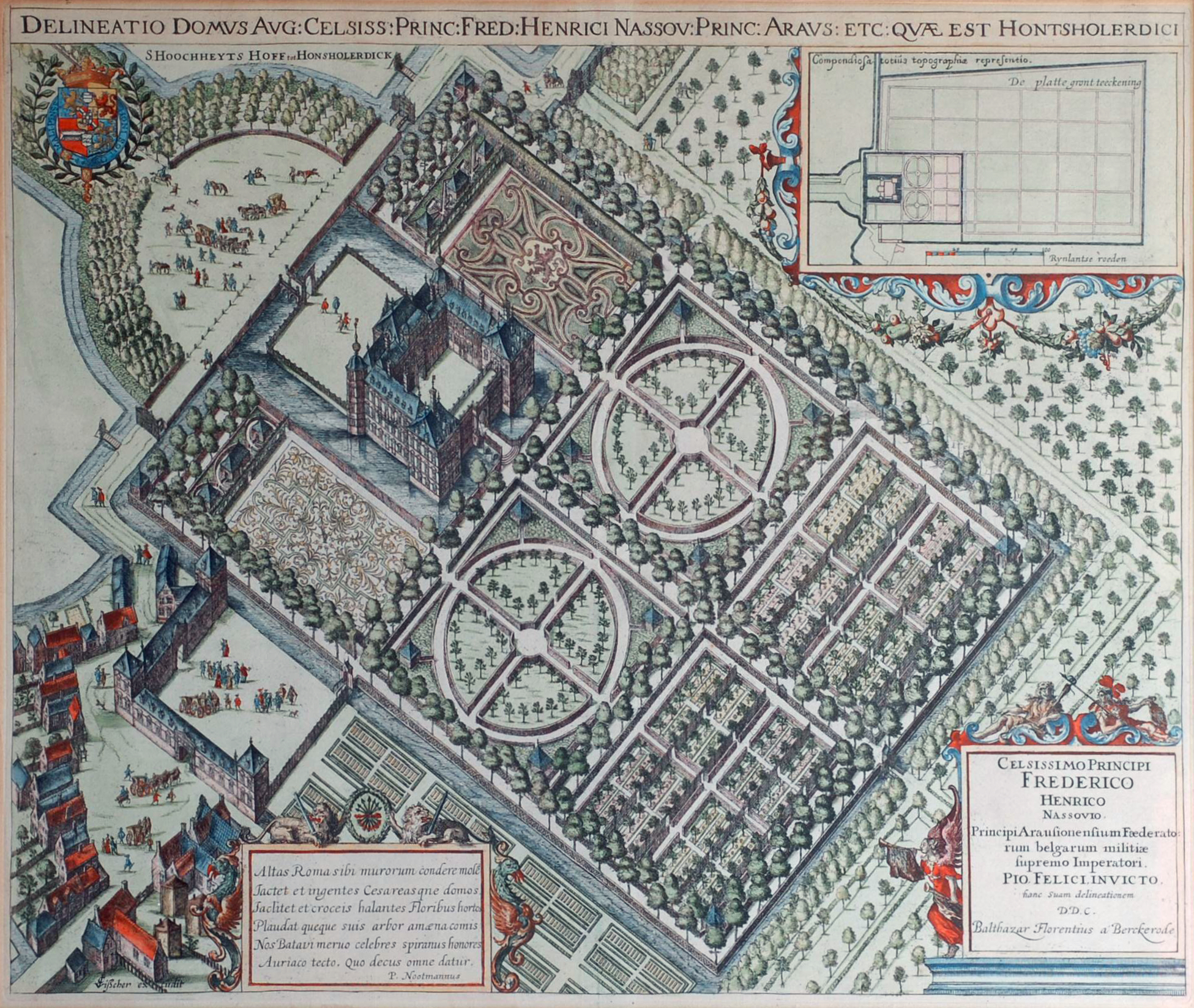 Map of the palace Honselaarsdijk